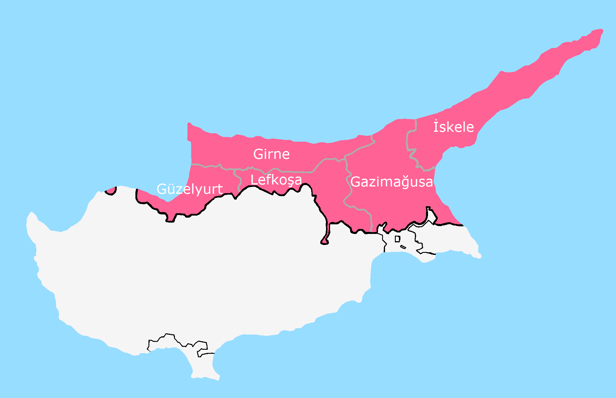 Full District map of Northern Cyprus